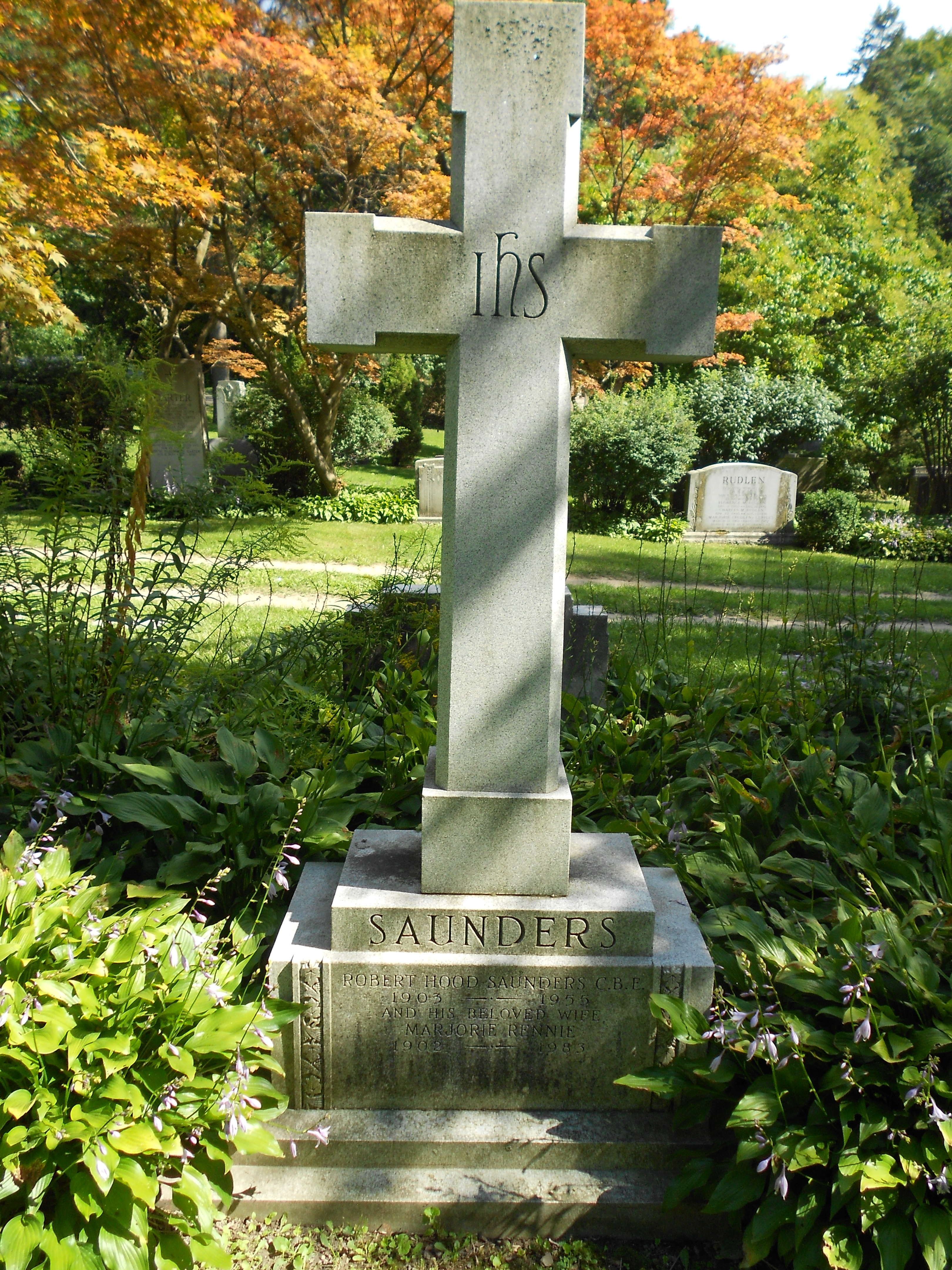 The gravestone marker for Robert Hood Saunders past mayor of Toronto, President of the C.N.E., and Chair of Ontario Hydro.